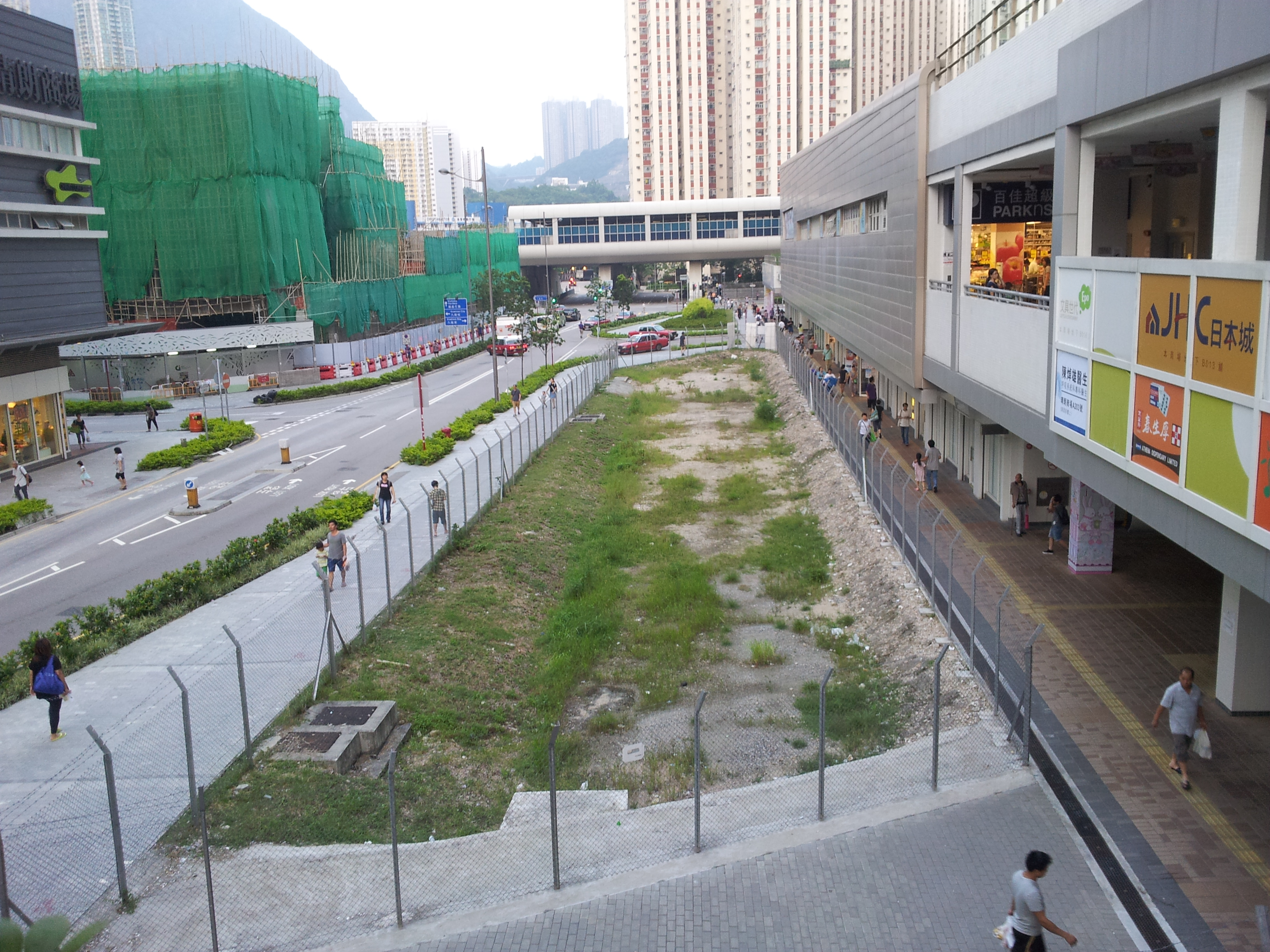 reserved space between ching long shopping centre